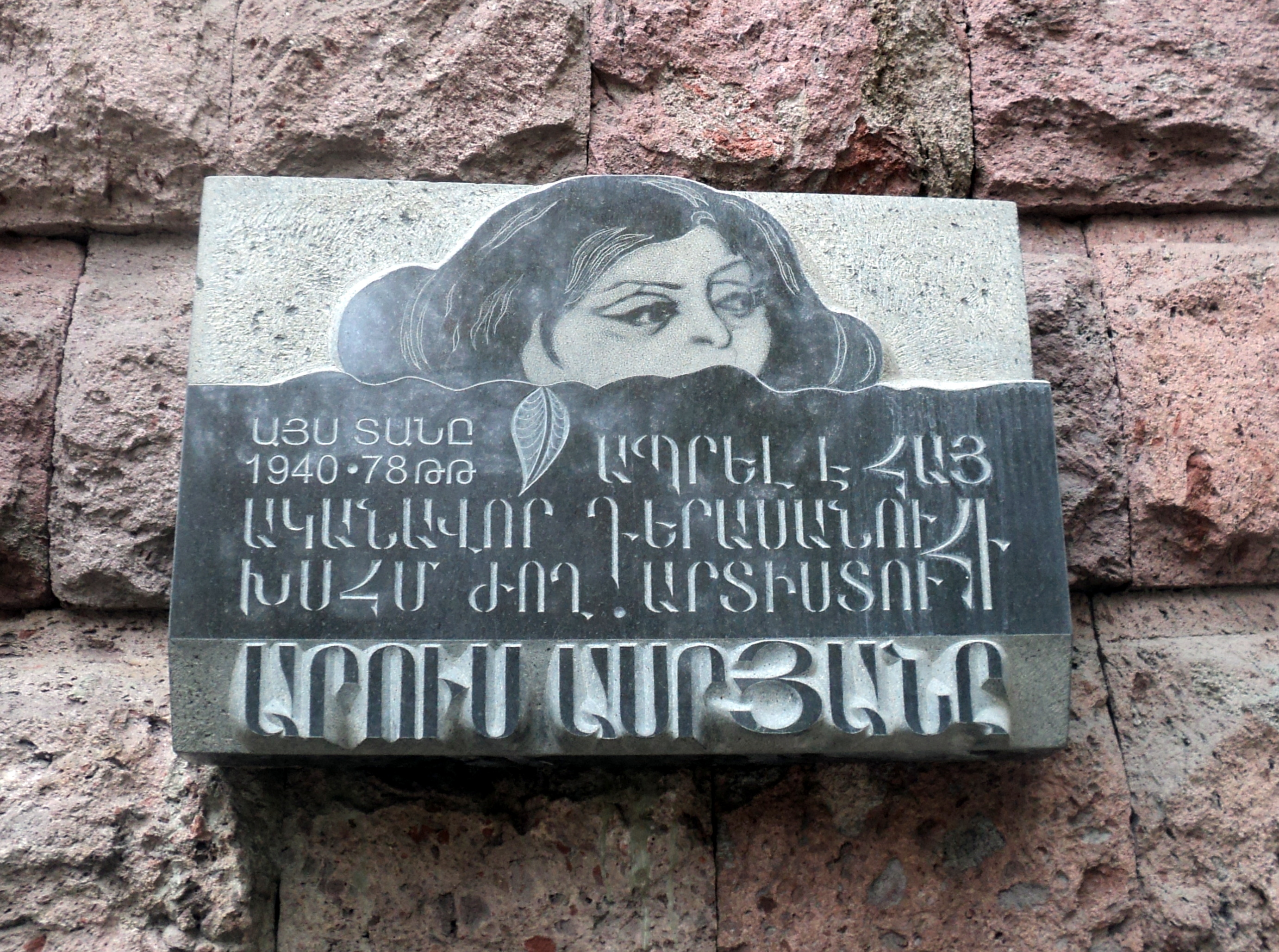 Arous Asryan's Plaque in Yerevan on Mashtots avenue